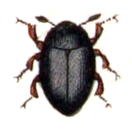 Limnichus pygmaeus, from Calwer's Käferbuch, Table 16, Picture 24. Taxonomy was updated to 2008, using mostly the sites Fauna Europaea and BioLib. Please contact Sarefo if the determination is wrong!